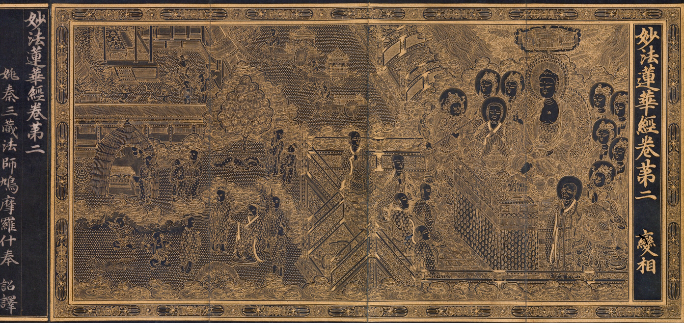 Illustrated Korean manuscript of the Lotus Sutra, Koryô (Goryeo) Dynasty (918–1392), ca. 1340, Folding book, gold and silver on indigo-dyed mulberry paper; 106 pages; each 33 x 11.4 cm, Metropolitan Museum of Art.